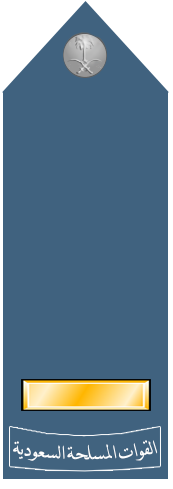 The Military Ranks and insignias of The Royal Saudi Air Force.